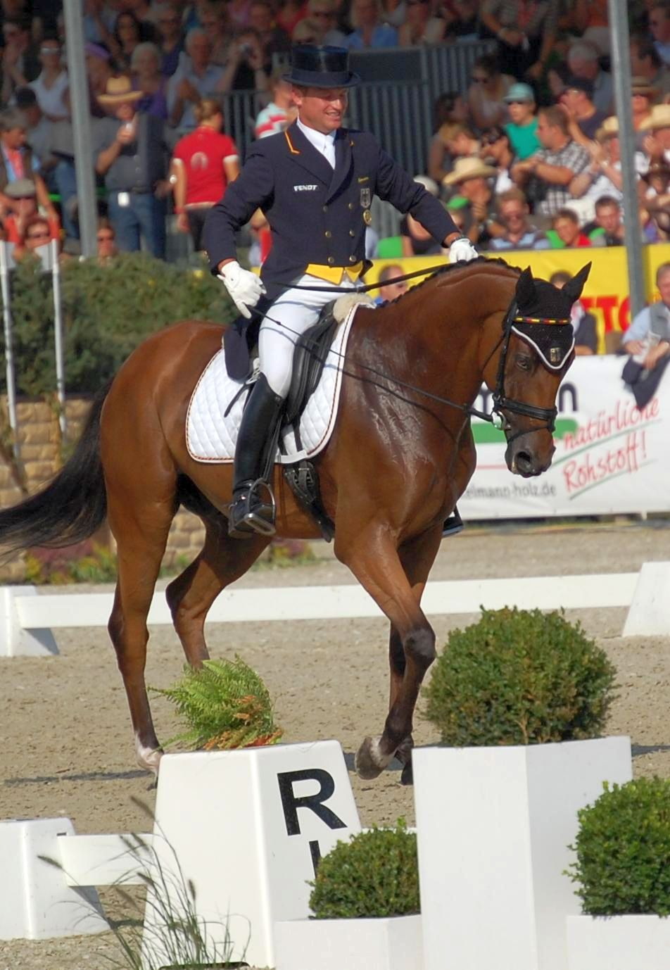 Michael Jung and La Biosthetique Sam FBW at the 2011 European Eventing Championship, Luhmühlen (dressage competition)